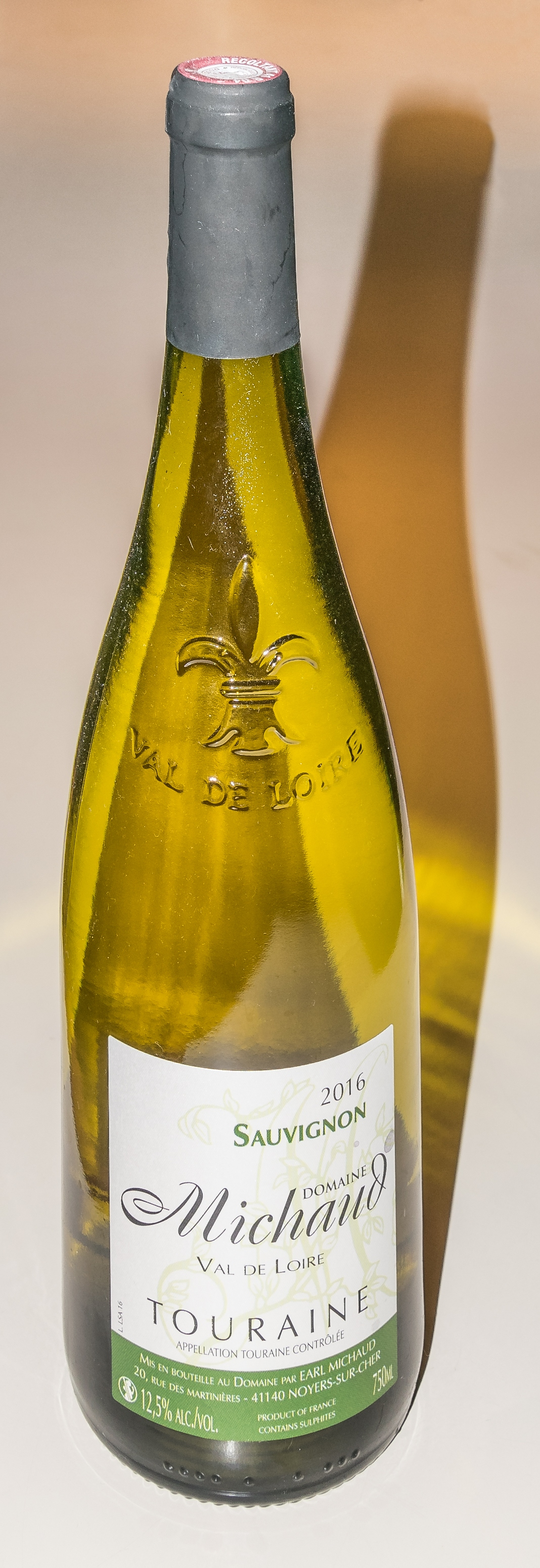 Wine bottles of Sauvignon Blanc, Touraine AOC, France